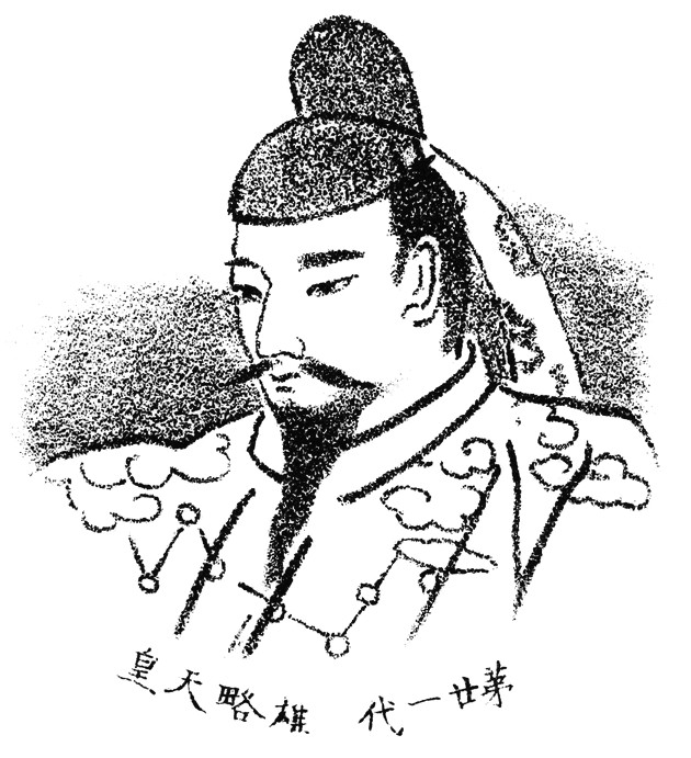 Emperor Yūryaku, who was the 21st emperor of Japan